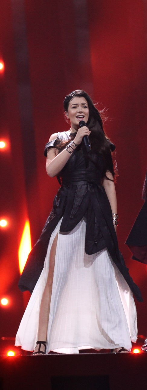 Sanja Ilić & Balkanika representing Serbia with the song "Nova deca" during a rehearsal before the second semi final of the Eurovision Song Contest 2018 in Lisbon.